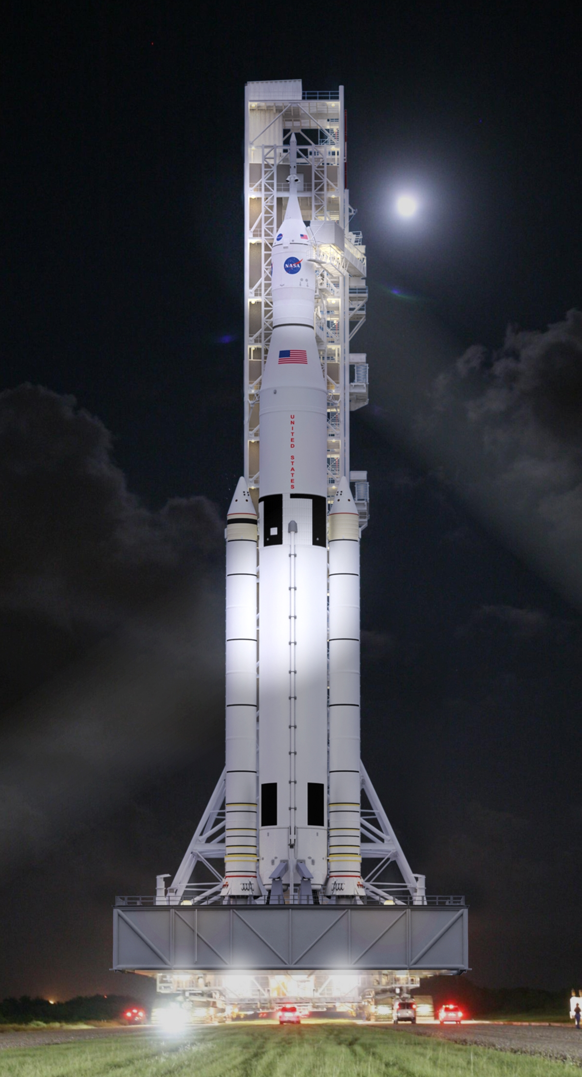 August 27, 2014 RELEASE 14-229 NASA Completes Key Review of World’s Most Powerful Rocket in Support of Journey to Mars This artist concept shows NASA’s Space Launch System, or SLS, rolling to a launchpad at Kennedy Space Center at night. SLS will be the most powerful rocket in history, and the flexible, evolvable design of this advanced, heavy-lift launch vehicle will meet a variety of crew and cargo mission needs. This is a cropped version of the original